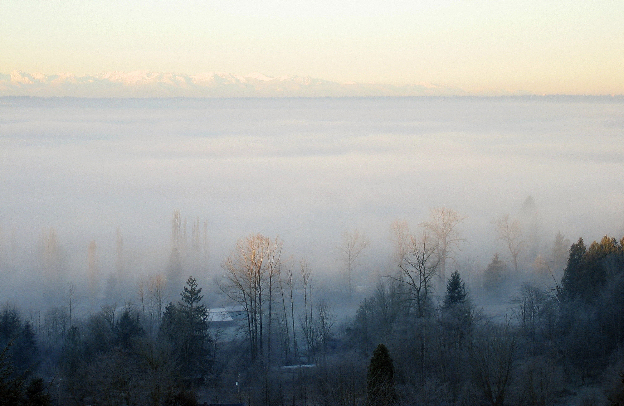 Photo of valley fog in Snohomish County, Washington, USA.